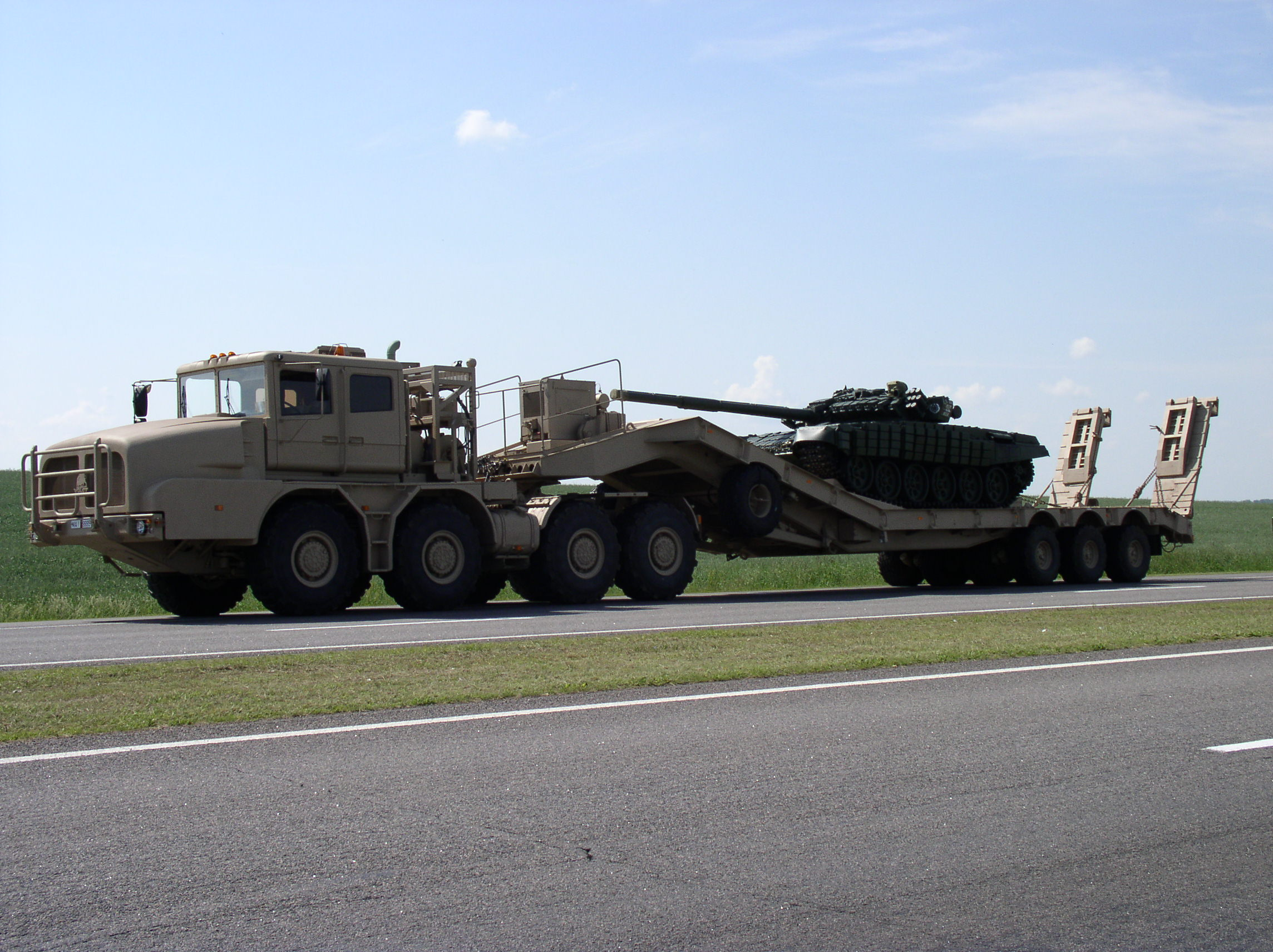 Tractor lorry Volot MZKT-74135 + 99942 transporting T-72. Belarus